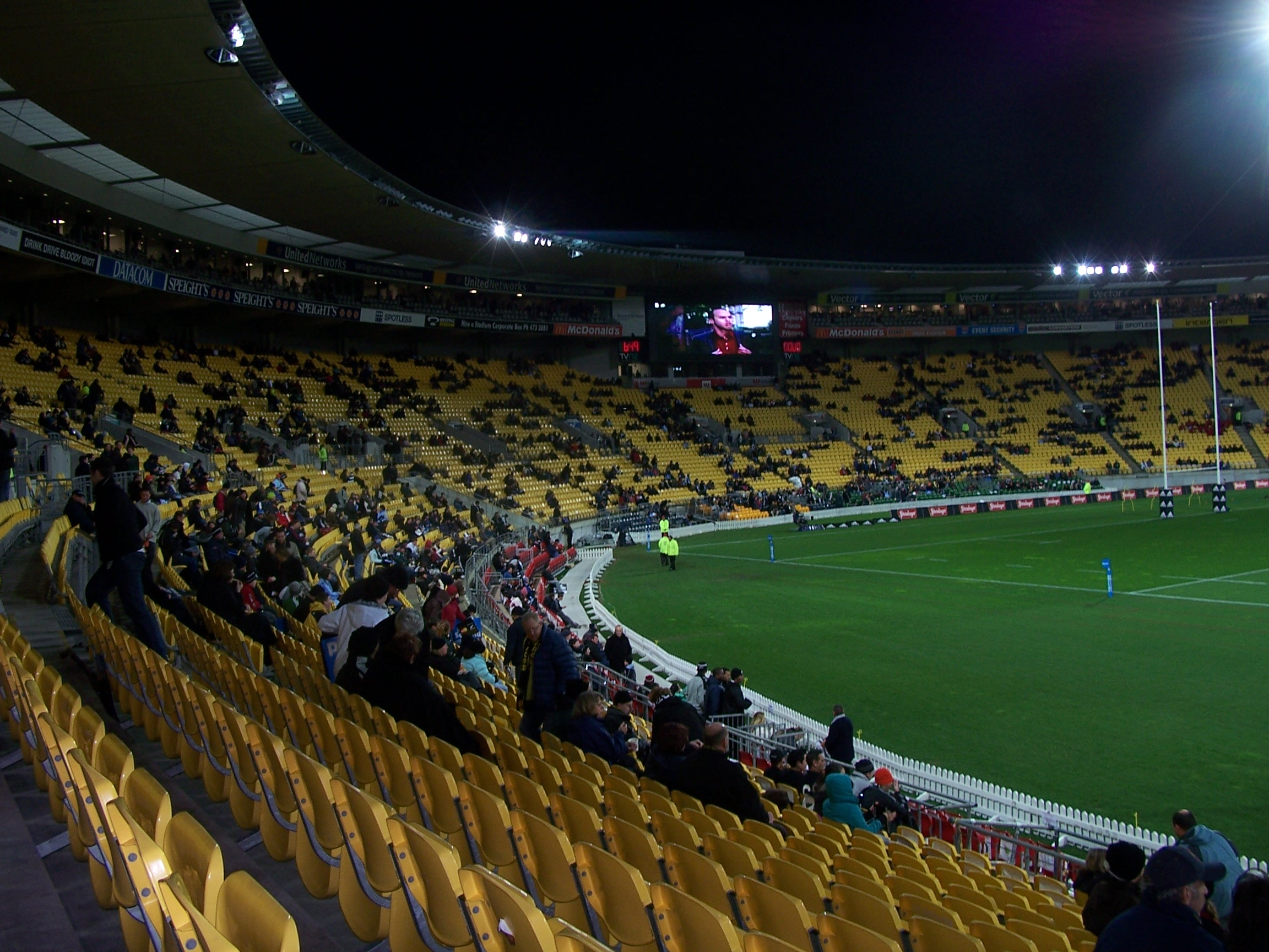 Before the All Blacks play the Springboks at Wellington Regional Stadium in 2006